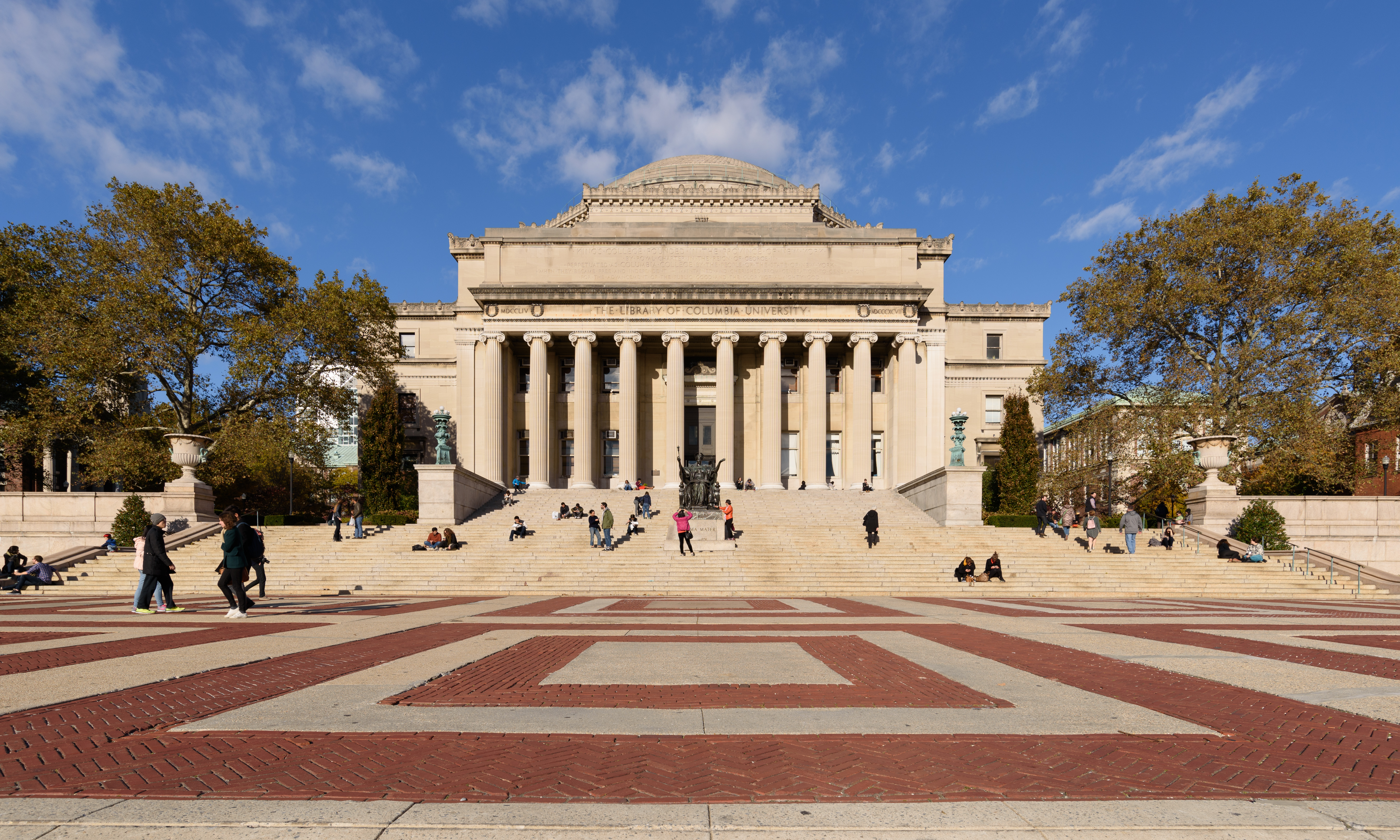 Low Memorial Library, Columbia University, Manhattan, New York City.